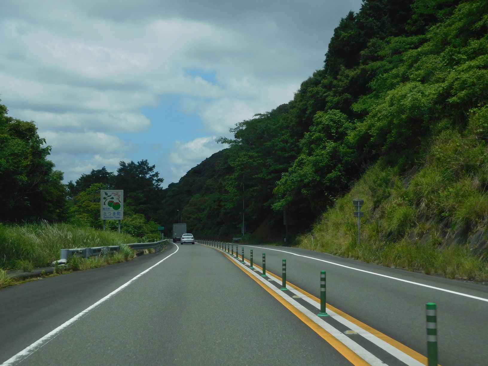 Hokusatsu (North Satsuma) Traverse Road (Satsuma Town, Kagoshima Prefecture, Japan)